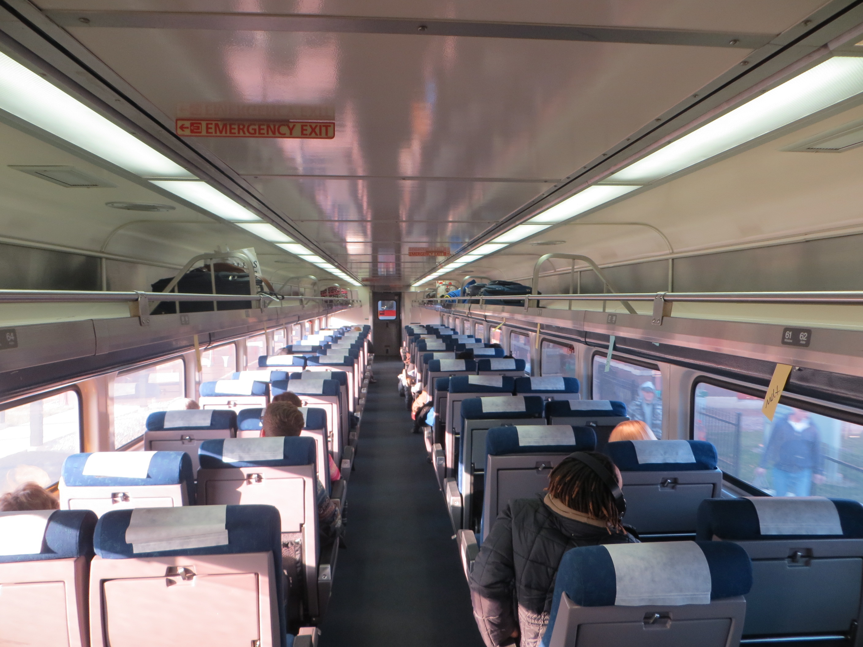 The interior of a Horizon coach on the Carl Sandburg as it sits in Plano, Illinois.